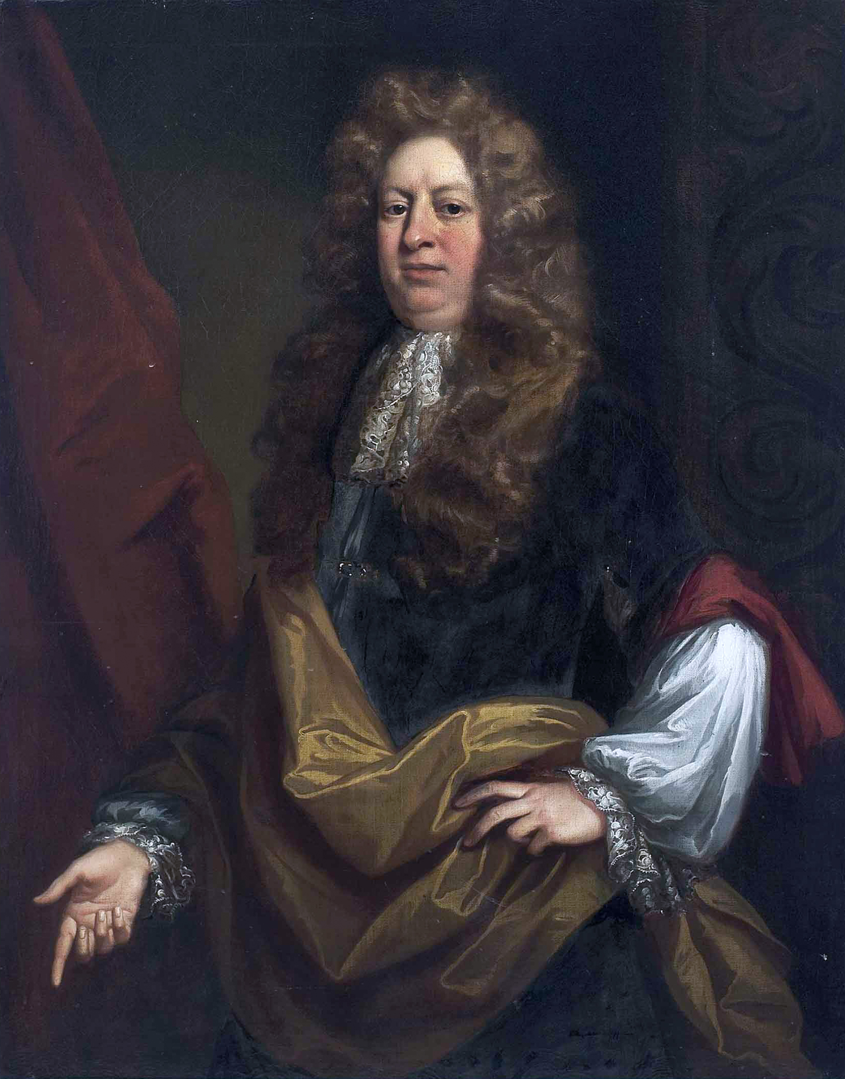 William Hussey (1642-1691) 127 x 101.4 cm 17th century